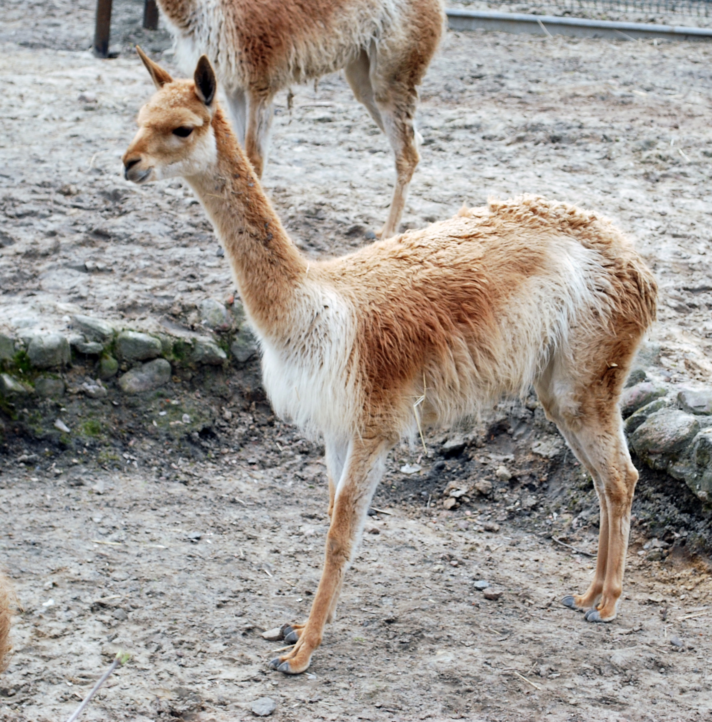 Young Vicugna vicugna in Łódź Zoo